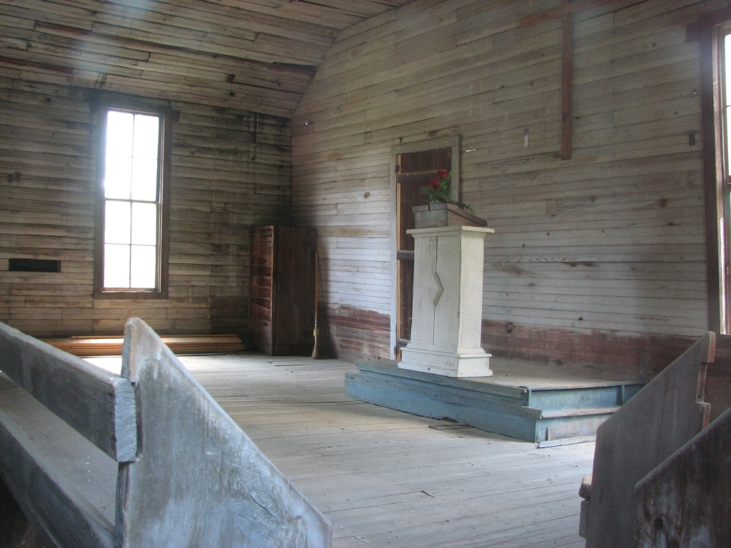 Interior of the Mt. Zion Church located in the "Old 23rd District" of Henry County, Tennessee